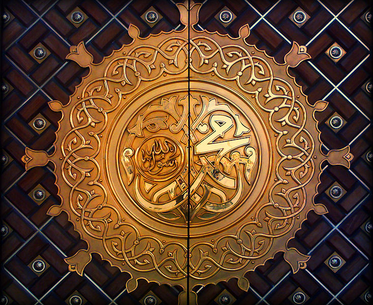 Muhammad's name, followed by his title "Apostle of God", inscribed on the gates of Al-Masjid al-Nabawi.